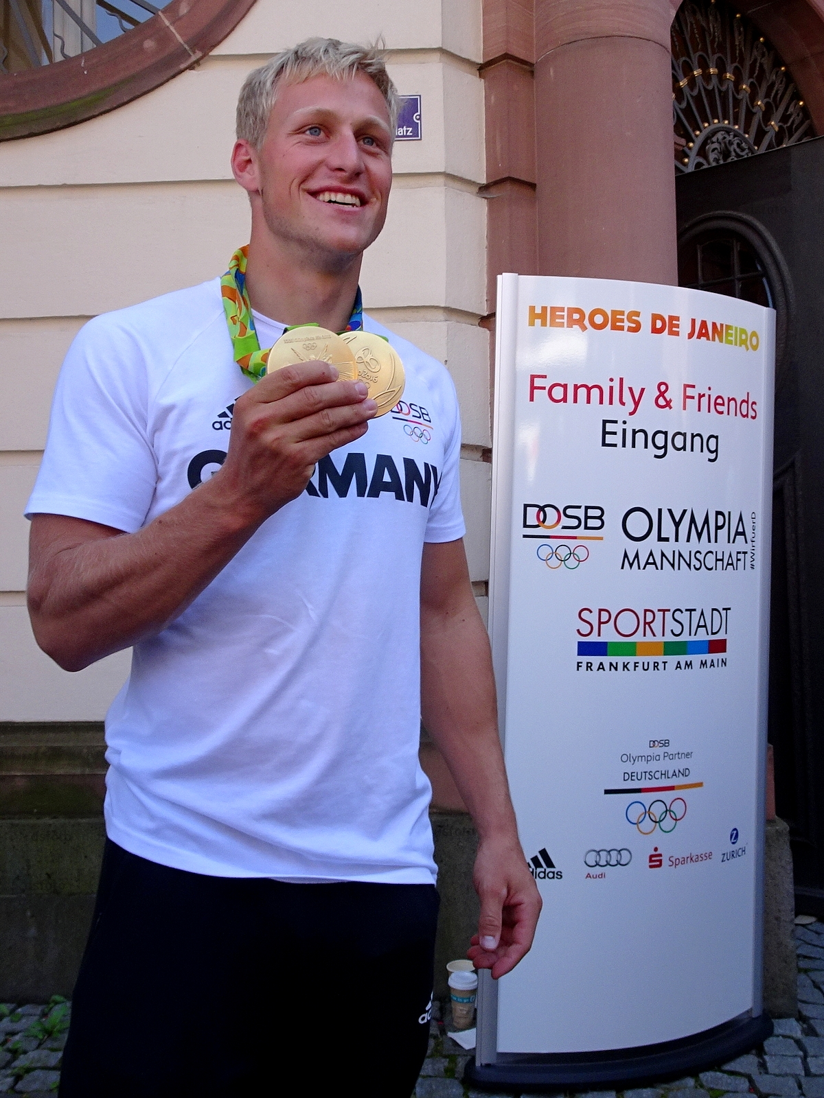 Max Rendschmidt, german canoeist and double gold Olympic champion in Brazil in 2016, upon receipt of the German Olympic team in Frankfurt am Main at Roemer, 23. August 2016